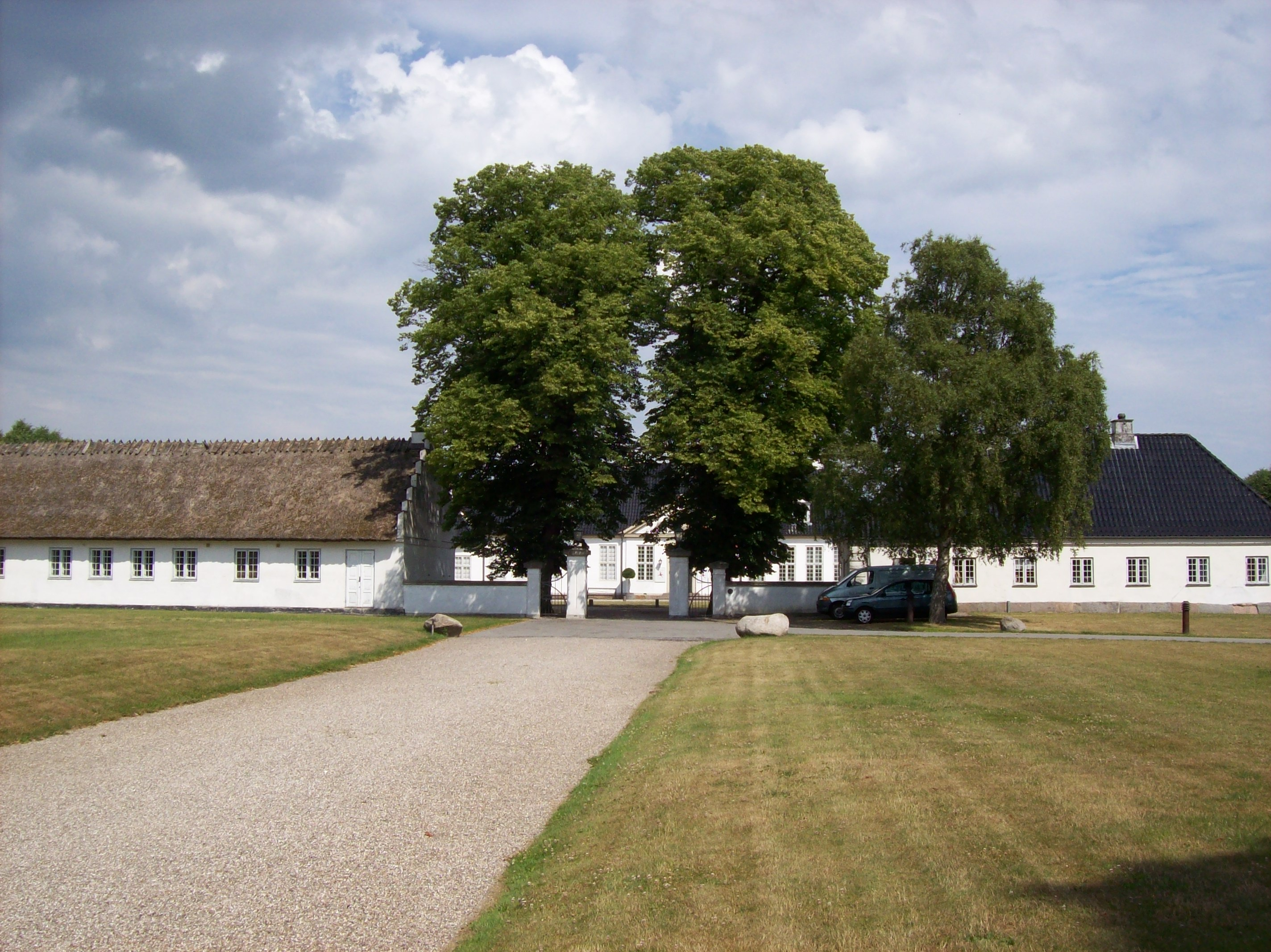 Gammelholtegaard